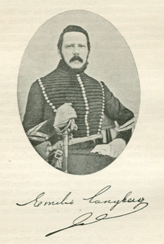 General Edward Emile Langberg